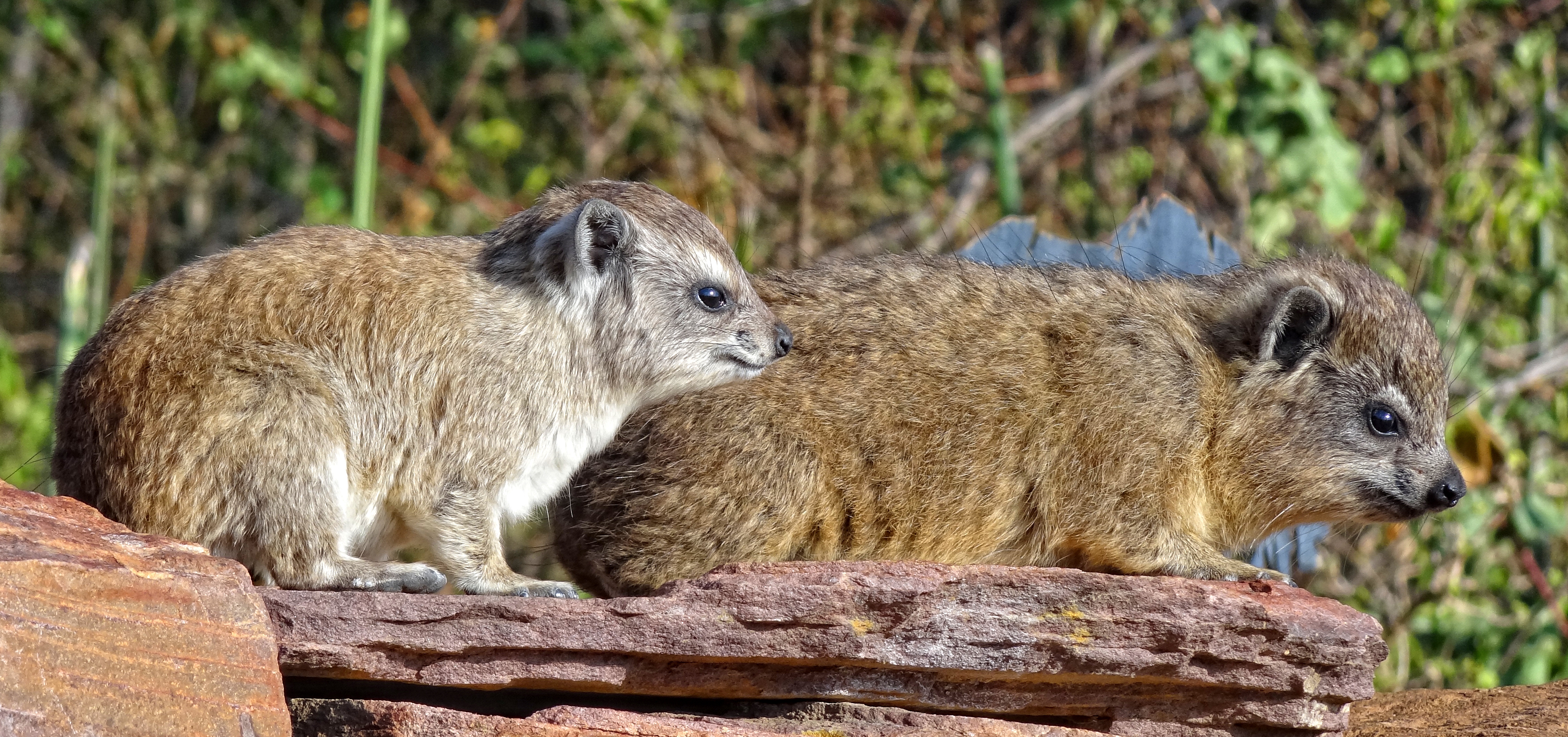 A rock hyrax mother and child photographed near the Serengeti Visitor's Centre in Serengeti National Park, Tanzania